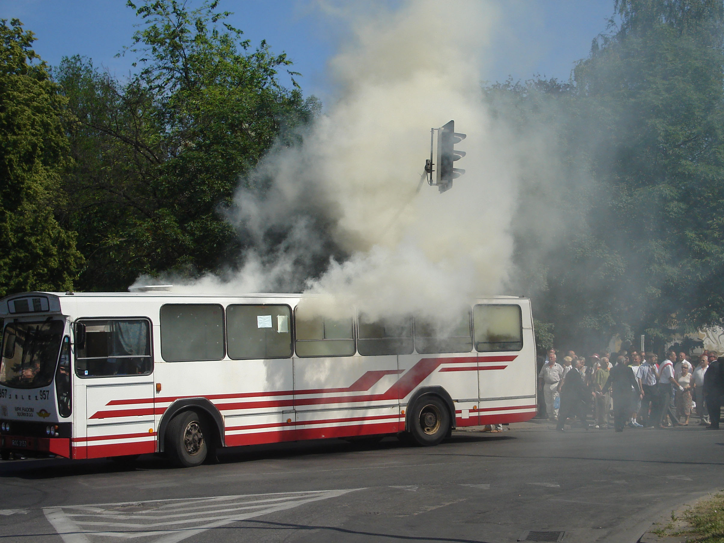 Staging of Radom events 1976. Jelcz M11 bus (#957), built 1988, MPK Radom operator.